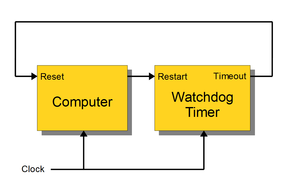 Block diagram of a simple, single-stage watchdog timer. The common clock is characteristic of basic watchdog circuits found in simple microcontrollers.